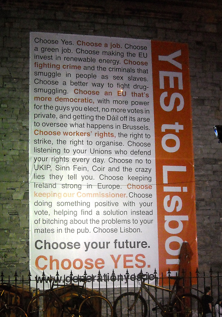 Campaigning for the Yes campaign, Irish Lisbon treaty referendum - Dublin, Ireland, Oct 2009 by Daniel Finnan